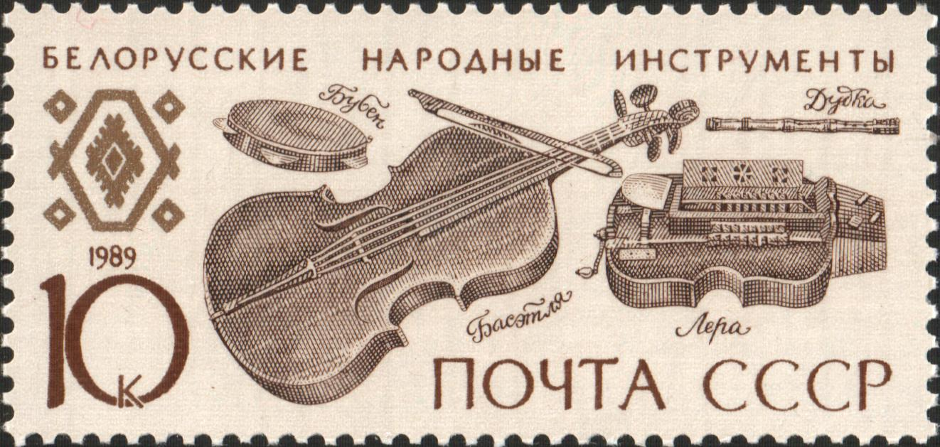 A USSR stamp